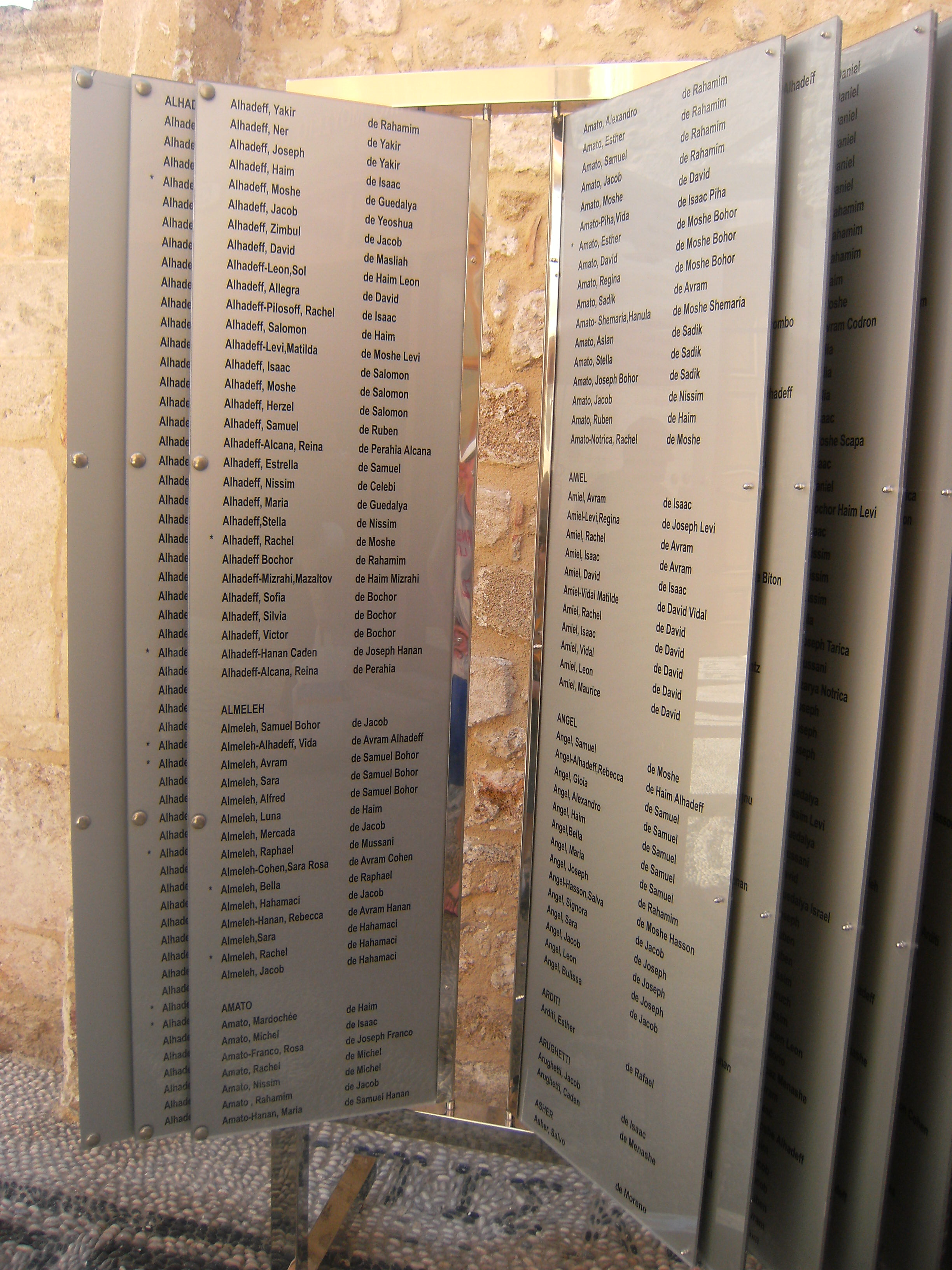 A list of names for the victims of the Holocaust in the Jewish community of Rhodes. Found in the courtyard of the Kahal Shalom Synagogue, La Juderia, Rhodes.